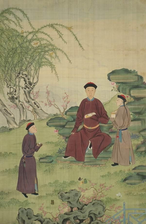 Hongzhou (1733-1765) was the 5th son of Emperor Yongzheng.